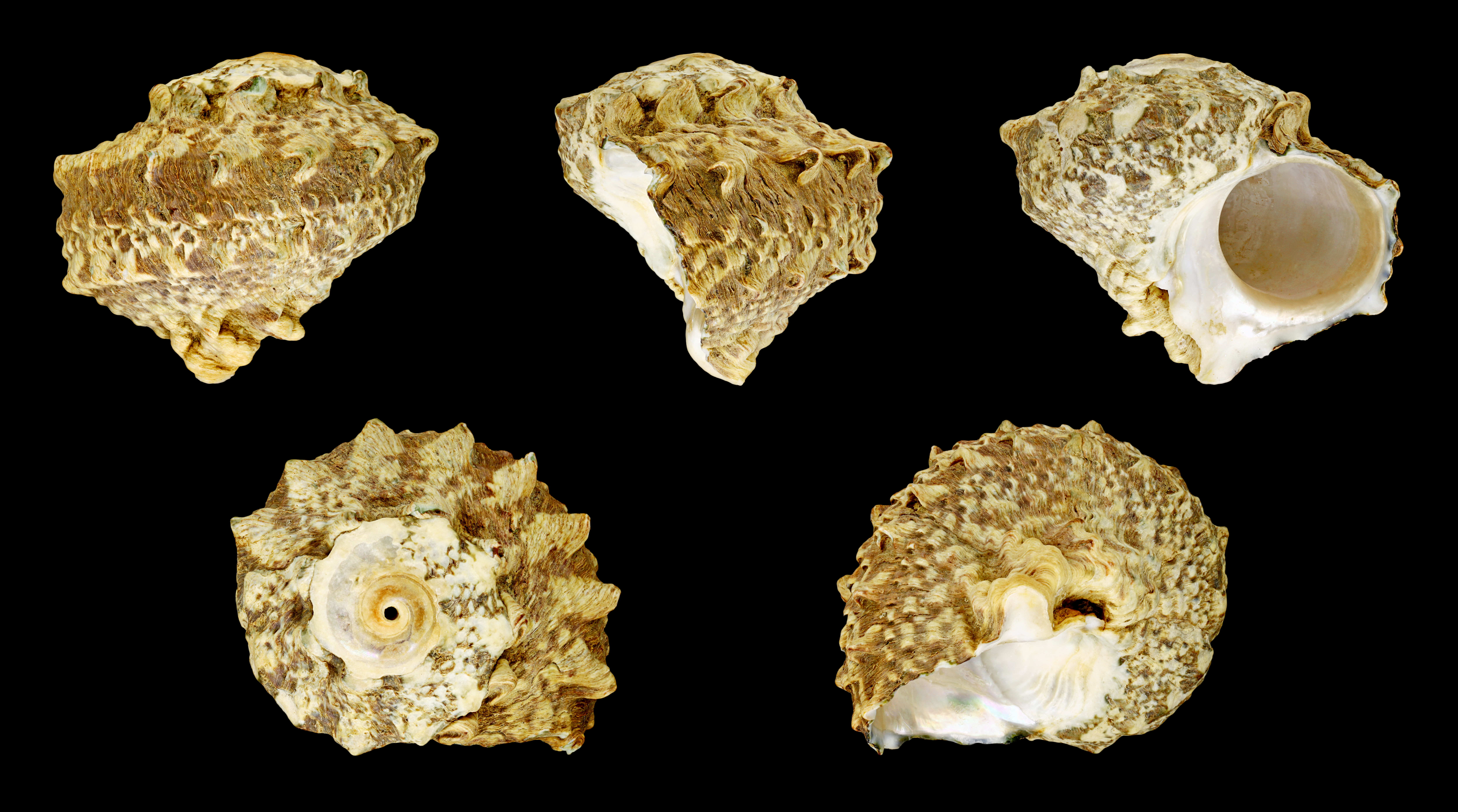 Crowned Turban Snail; Diameter 4.8 cm; Originating from Japan; Shell of own collection, therefore not geocoded.